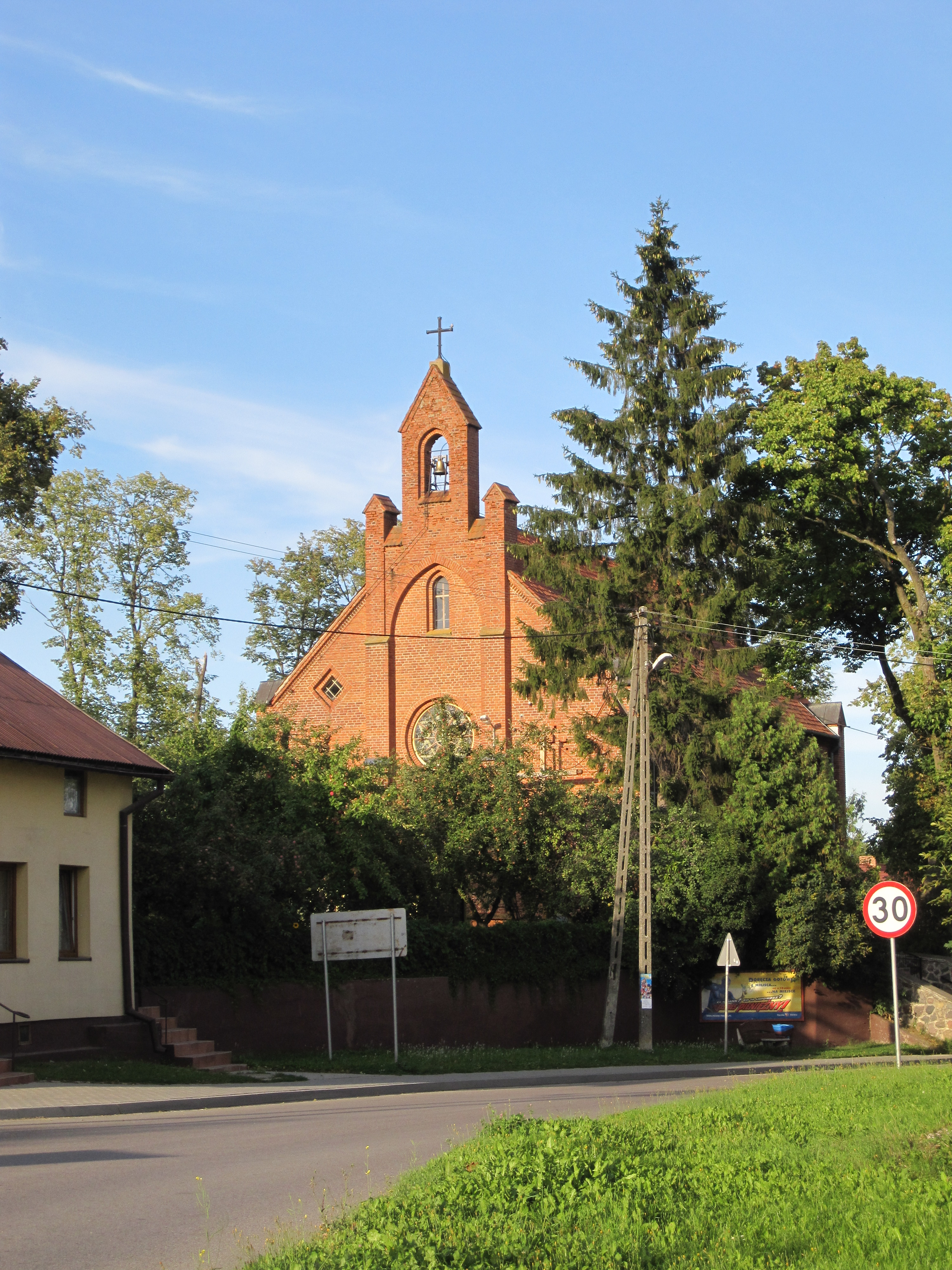 Exaltation of the Holy Cross church in Ukta